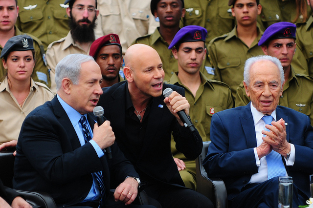 Events in Israel